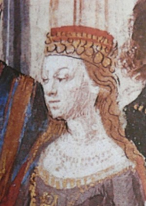 Isabelle of Hainault